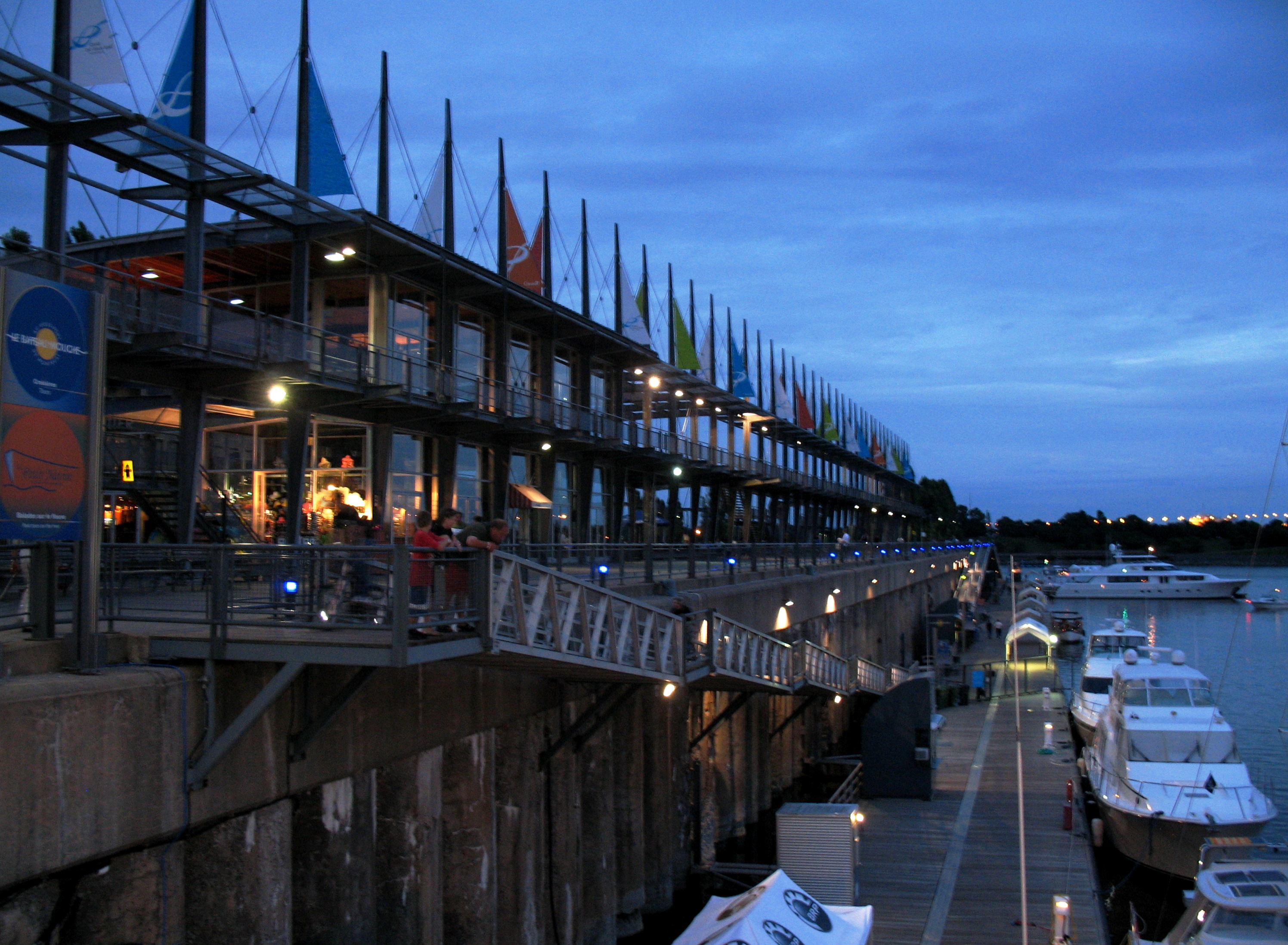 The Old Port, located in Old Montreal, at night. Taken by Jacquie Atamanuk in July 2006 and released to the public domain.